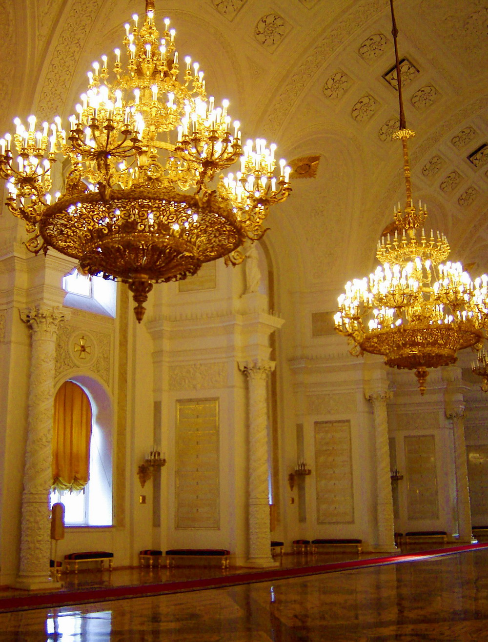 St. George hall in the Grand Kremlin Palace, Moscow, Russia